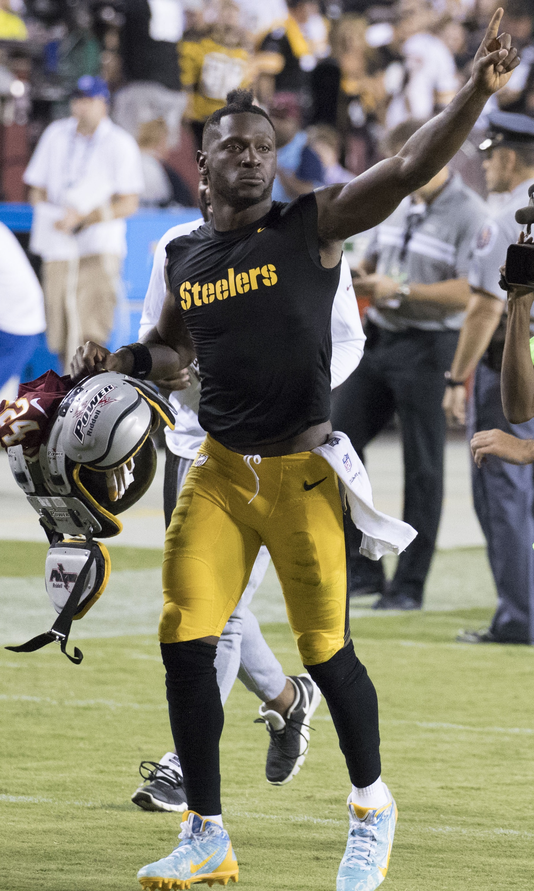 Steelers at Redskins 9/12/16